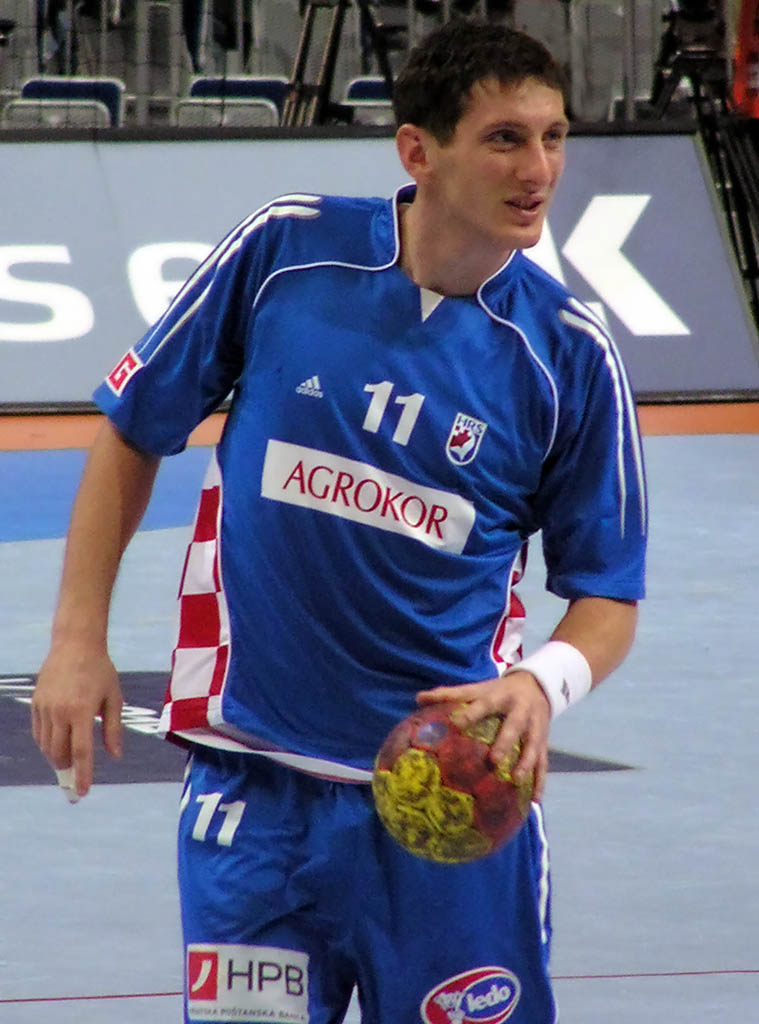 Mirza Džomba, on January 24th 2007 in Mannheim , SAP-Arena (Germany), during the break of the Handball World Championchip game Denmark - Croatia (26:28)